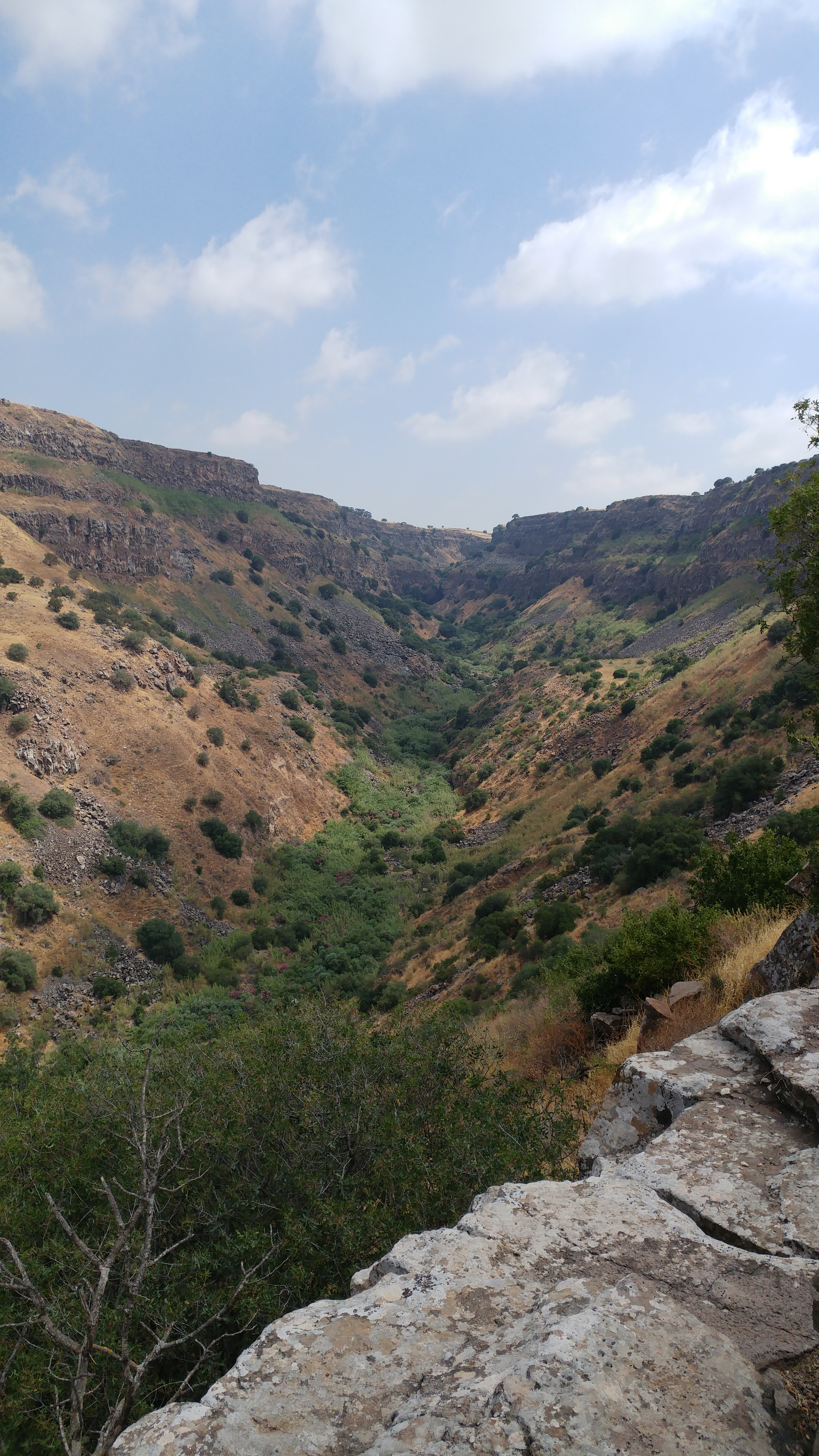 Gamla stream, Golan Heights, Israel.